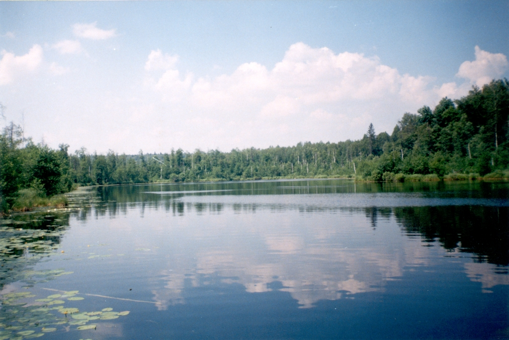 Tot-Er lake